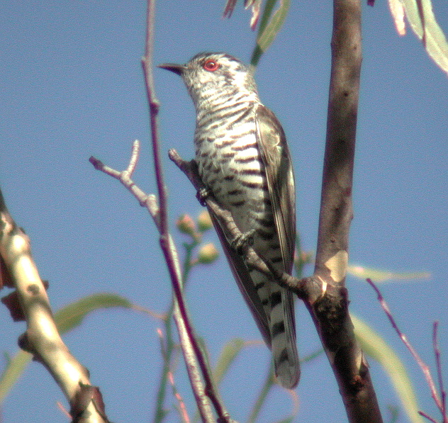 Little Bronze Cuckoo (Chrysococcyx minutillus) Kobble Creek, SE Queensland, Australia